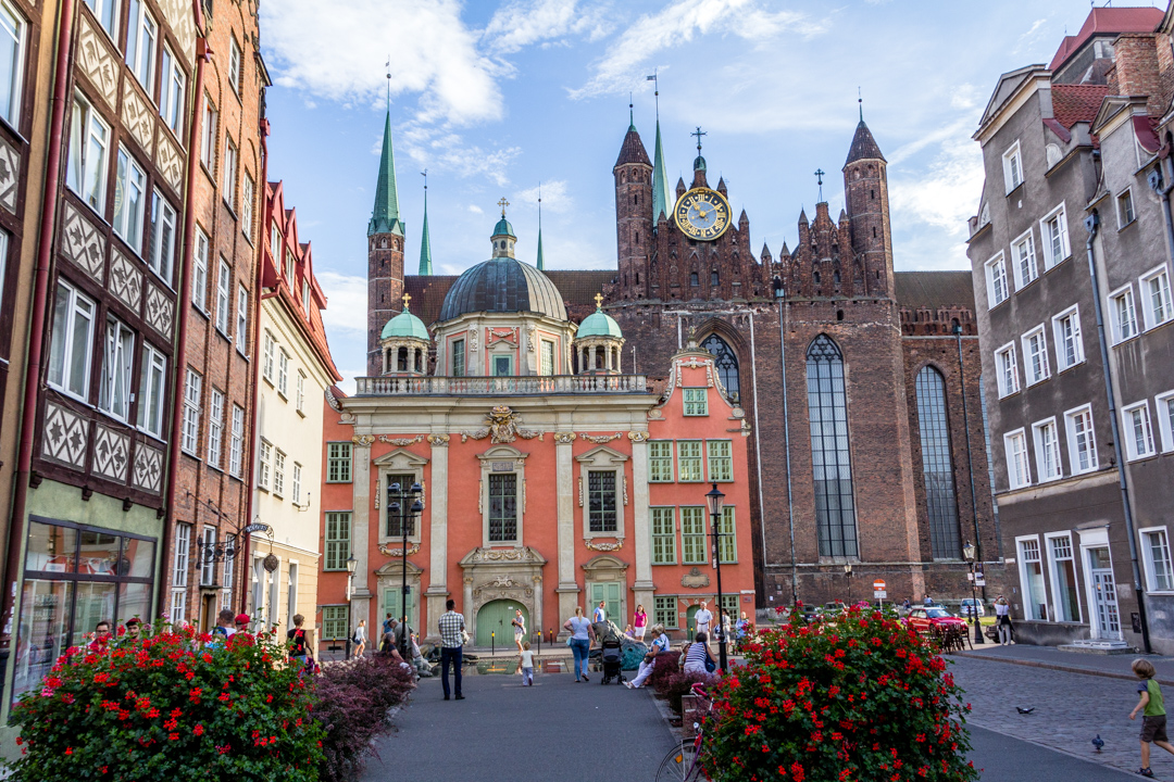 Gdańsk - Royal Chapel - view from Gobla 1 on Royal Chapel